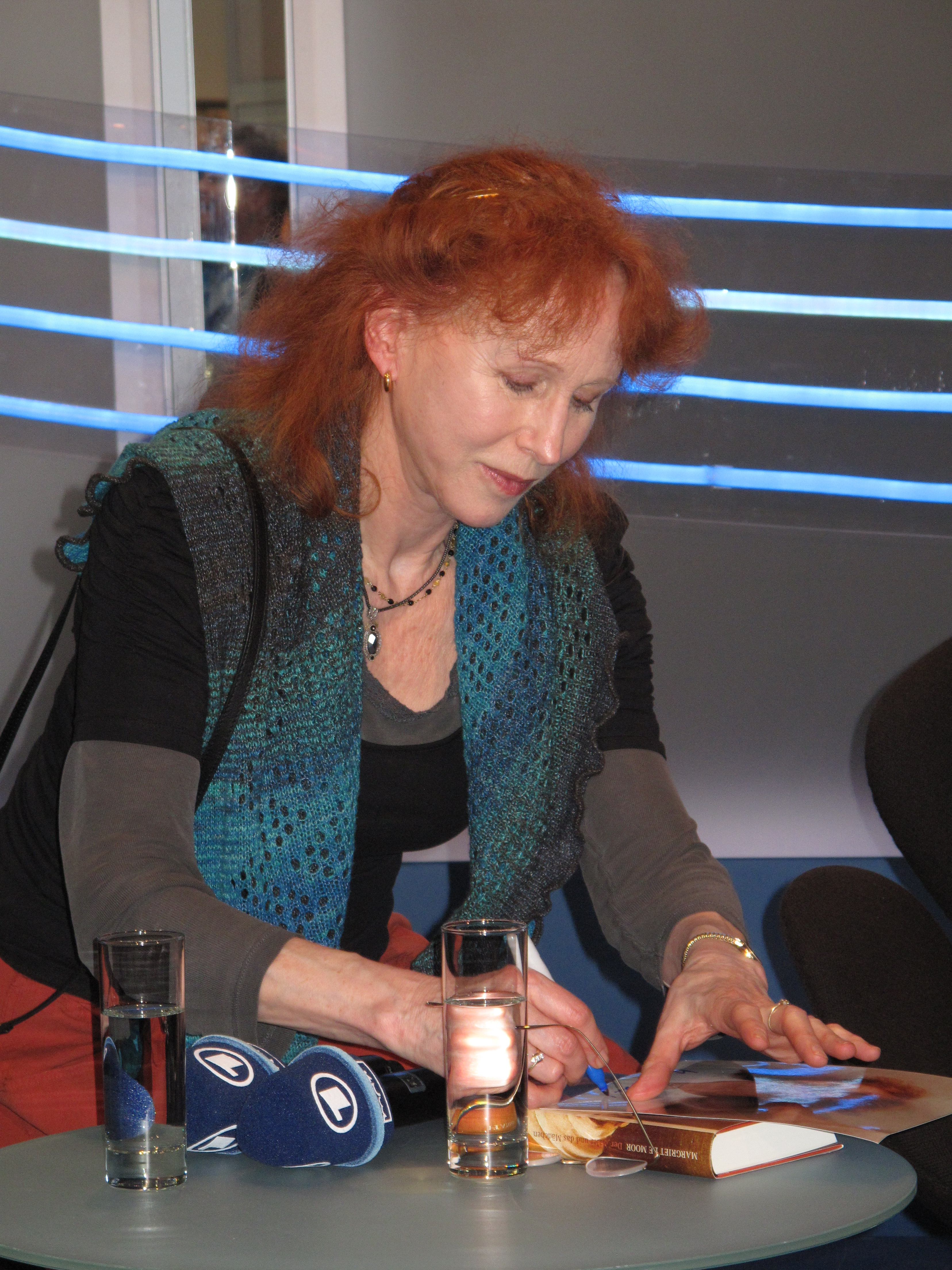 Margriet de Moor - Leipzig Book Fair 2011